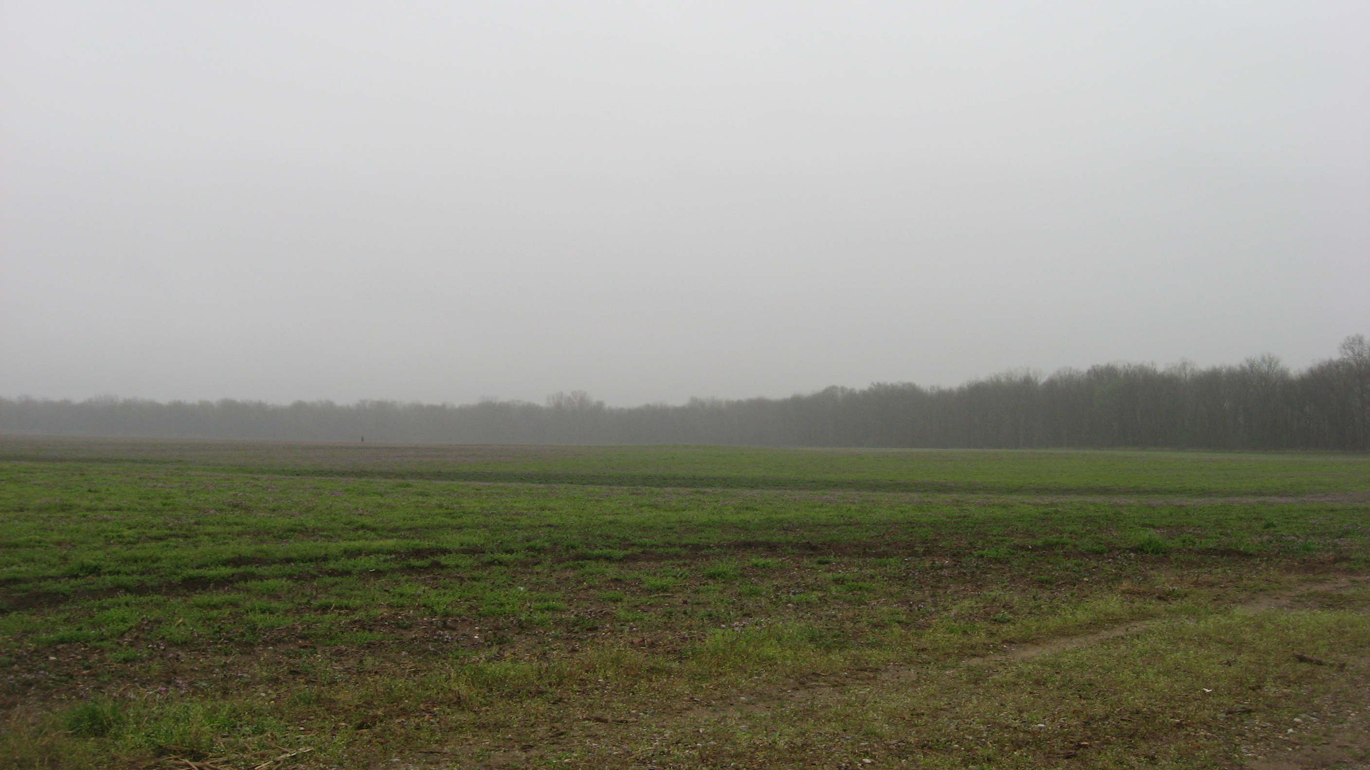 Looking over the Hubele Mounds and Village Site, located east of the junction of County Roads 950N and 1900E southeast of Maunie in Emma Township, White County, Illinois, United States. While the mounds have been reduced to near invisibility by continuous cultivation, they are still an important archaeological site, and the site is listed on the National Register of Historic Places.